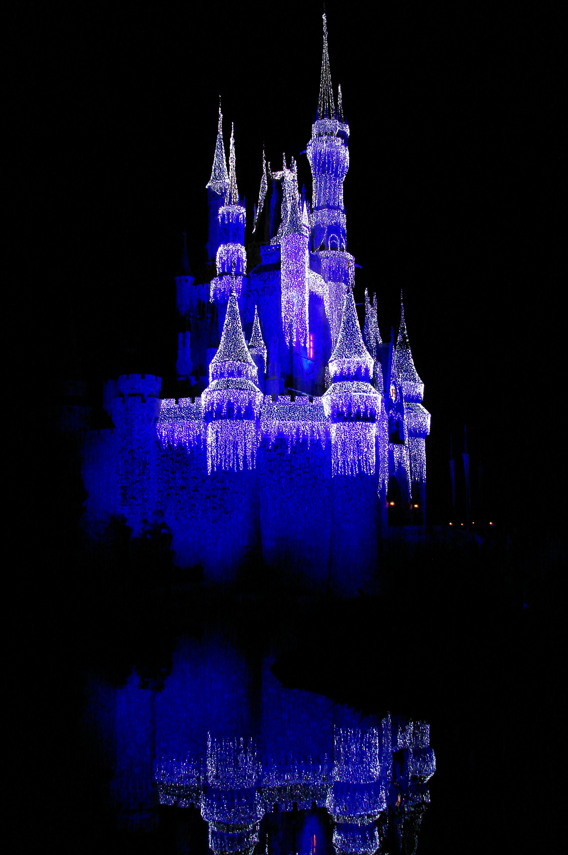 Cinderella Castle at Disney World's Magic Kingdom at night.